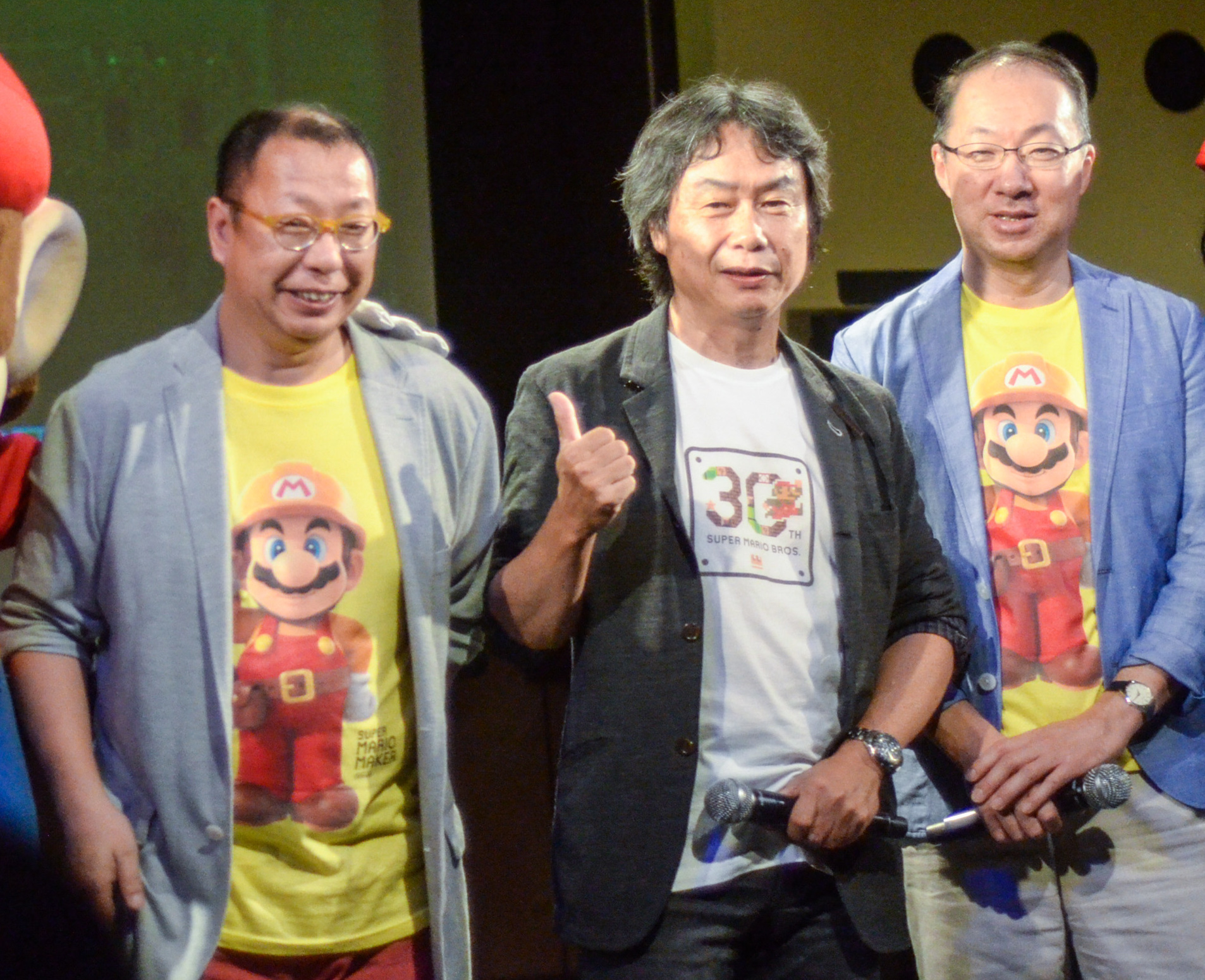 Takashi Tezuka, Shigeru Miyamoto and Koji Kondo - September 13th 2015 at the Super Mario 30th Anniversary Festival in the Club Music Exchange, Shibuya, Tokyo